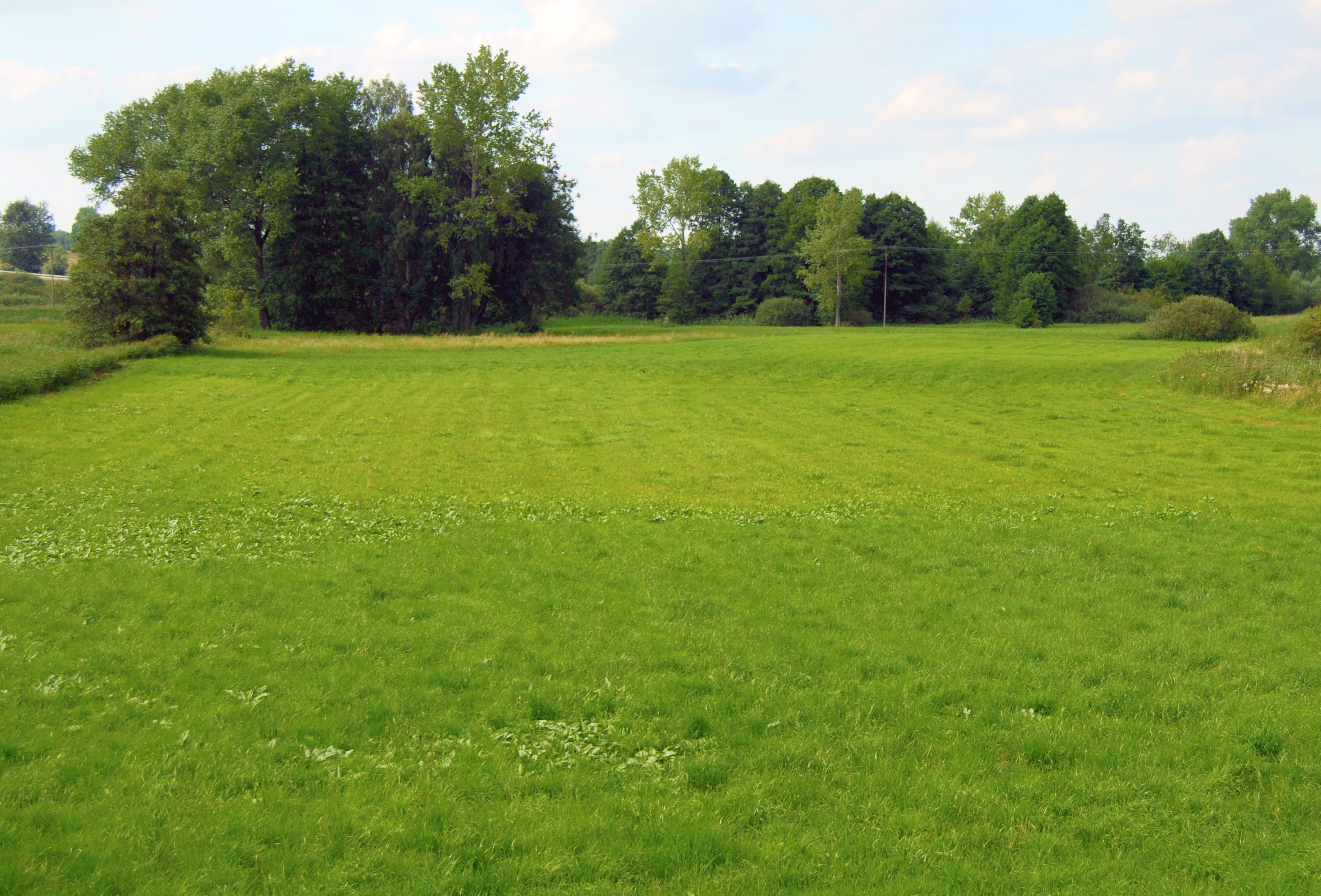 Użytki_zielone.